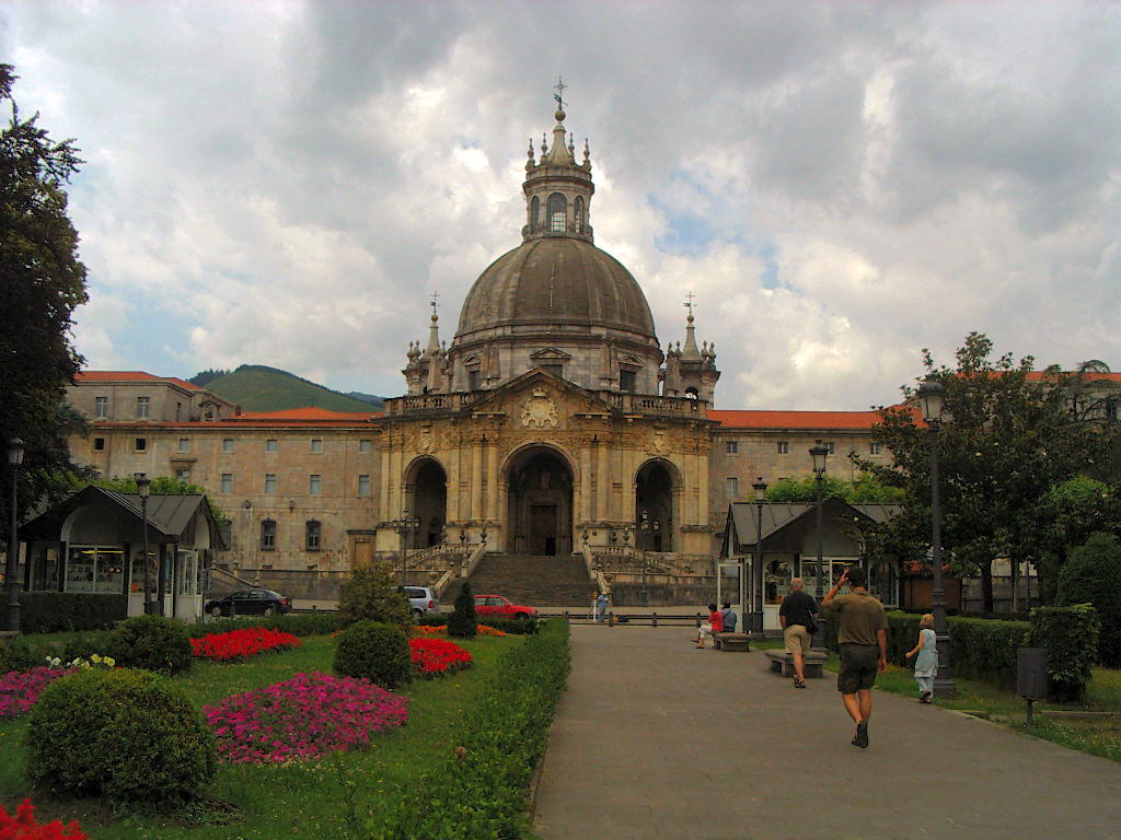 Image of the Basilica of St. Ignatius in Loyola with extra contrast given for better detail.